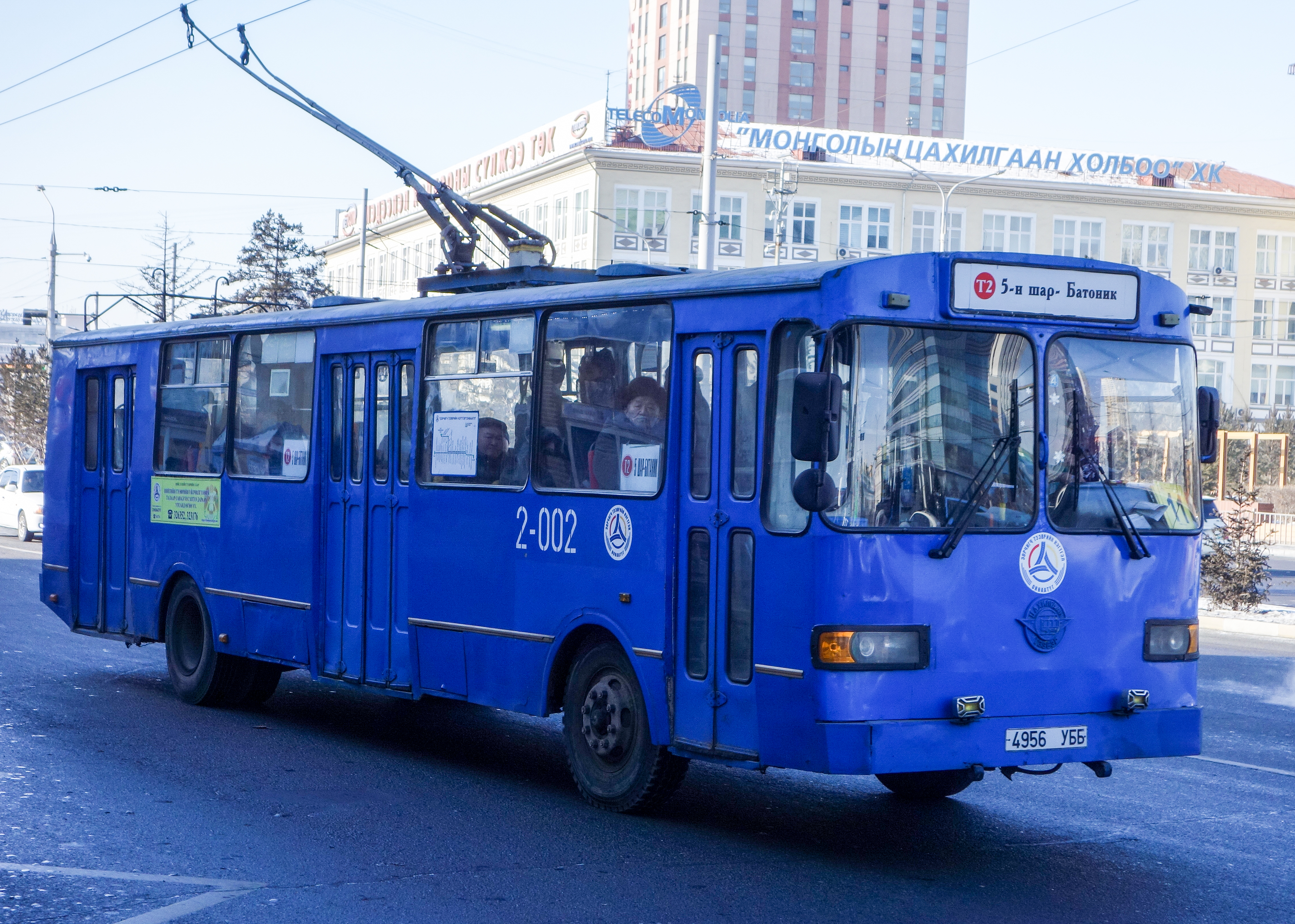 Trolleybus at the center of Ulaan Baator